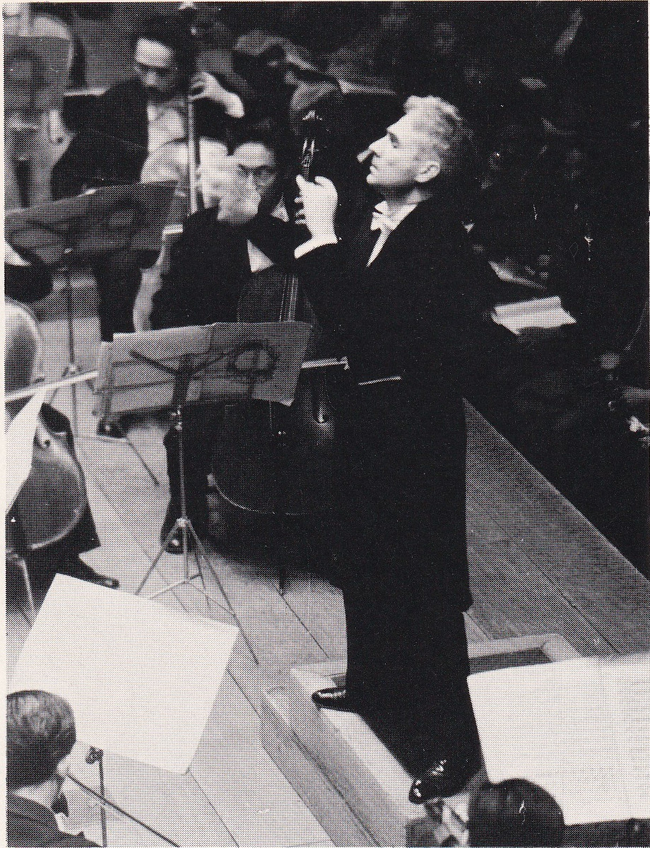 Jean Martinon Conducts in NHK Symphony Orchestra, Tokyo. taken in Oct. 13 1953